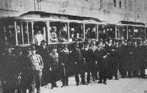 This is a photo of the Novi Sad Tram from 1911, the day that it first opened. It is in the public domain. You can find it on many places on the internet.